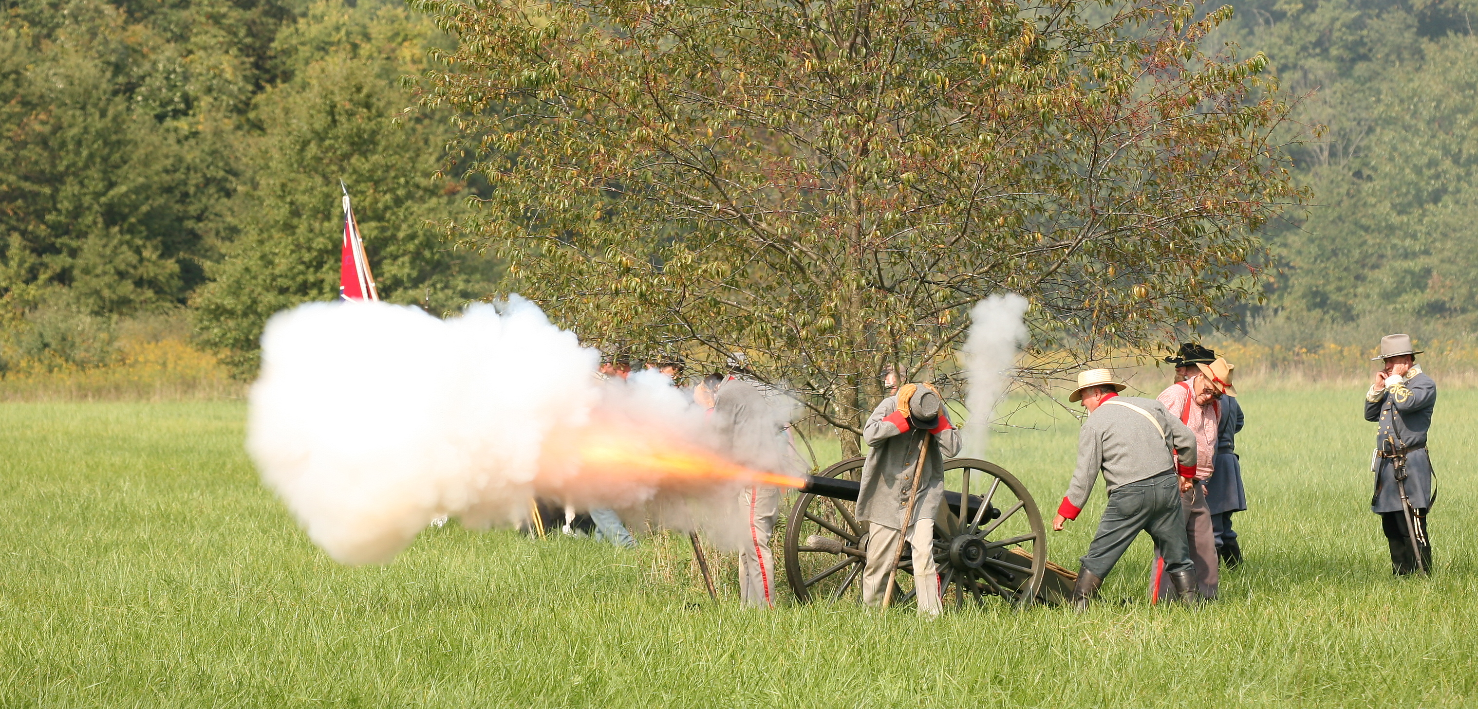 Civil war reenactment at Kennekuk County Park, near Danville, Illinois